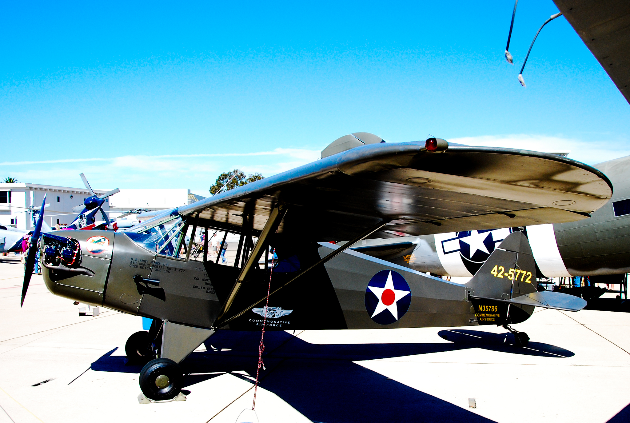 Commemorative Air Force Marine Corps Air Station Miramar (MCAS Miramar) (IATA: NKX, ICAO: KNKX, FAA LID: NKX) Photo: Tomás Del Coro Miramar Air Show 2014 October 4, 2014